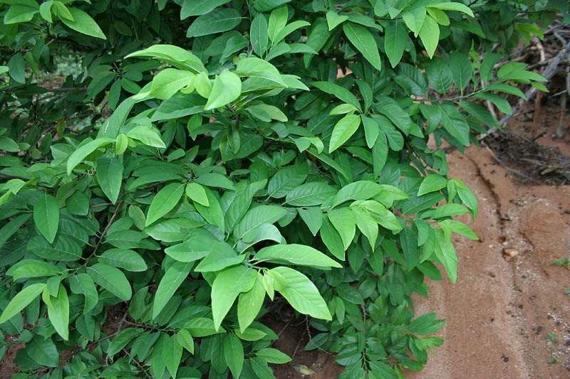 Custard-apple, sugar-apple, sweetsop, sitaphal or Sita's fruit, shareefah, aataa or Rahmapfel Annona squamosa in Hyderabad , India.